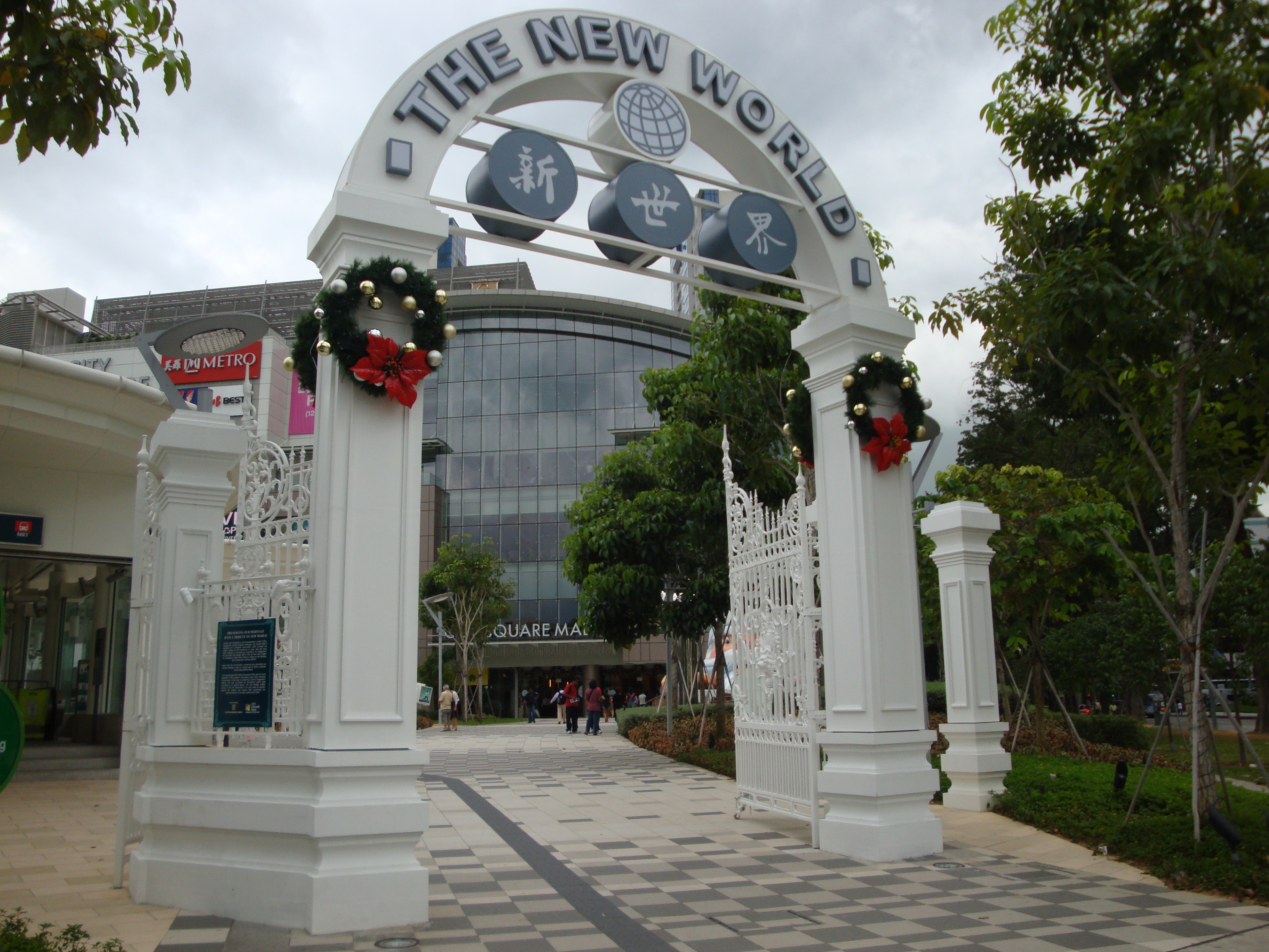 The now defunct gate to New World Amusement Park, refurbished and is now the entrance of City Square Mall's City Green.